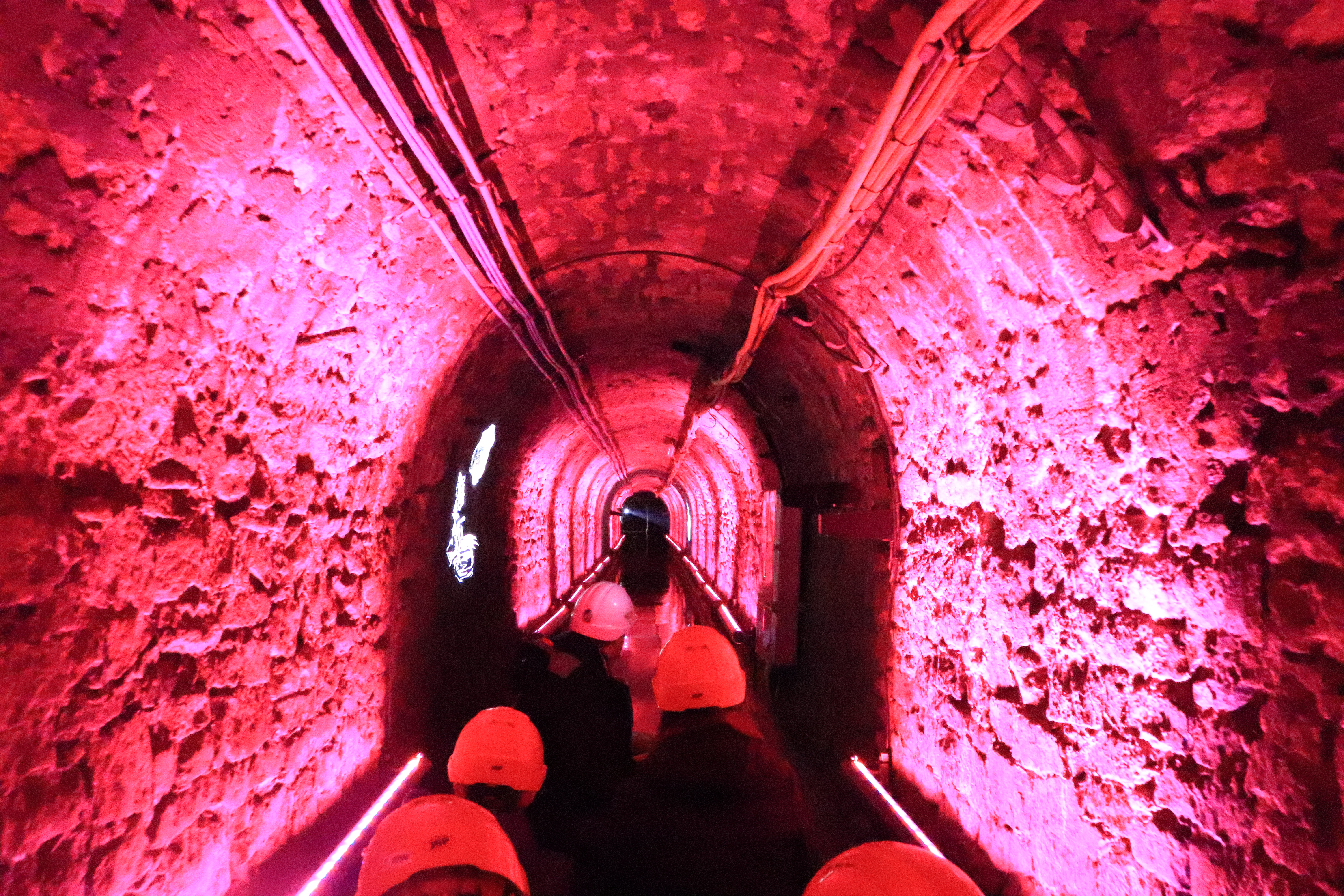 Zabrze - Main Hereditary Key Adit